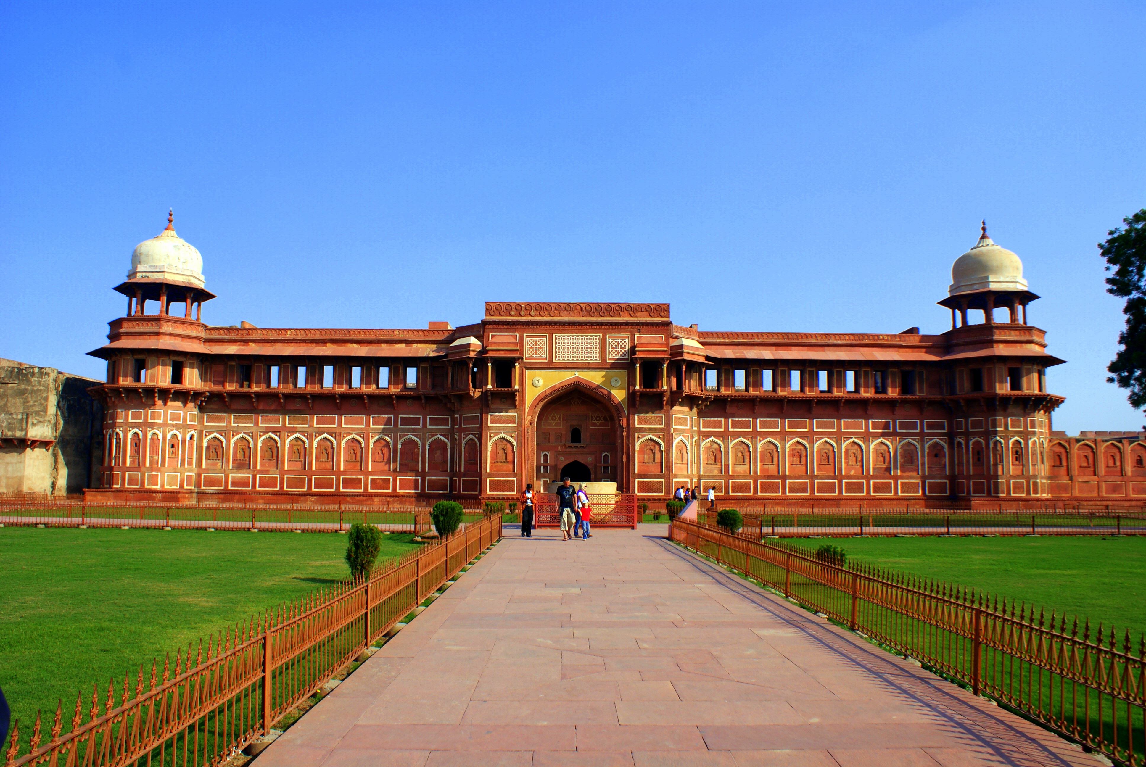 Jahangiri Mahal